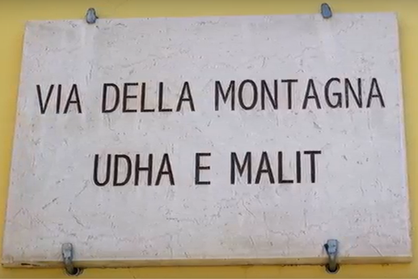 Bilingual street sign in Frascineto, Cosenza, Calabria; Italian and in Arbëreshë (below)